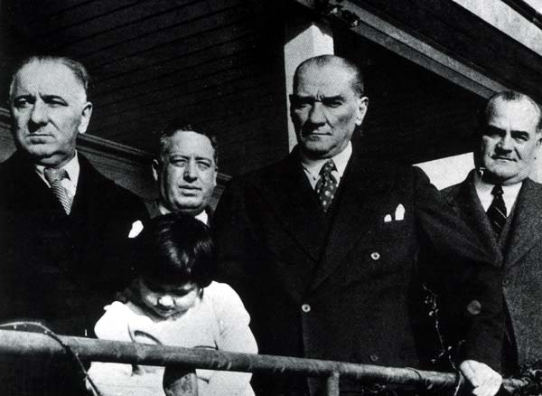 Salih Bozok, Ülkü Adatepe, Cevat Abbas Gürer, Mustafa Kemal Atatürk, and Ali Kılıç at Florya, Istanbul in 1937.